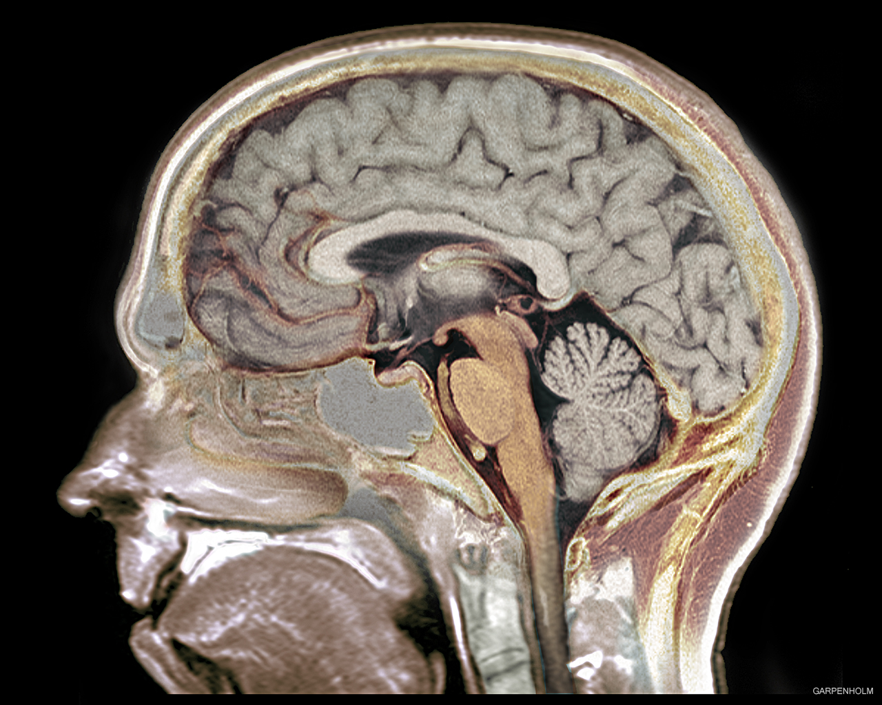 MR-Scan_of_Garpenholms_Brain